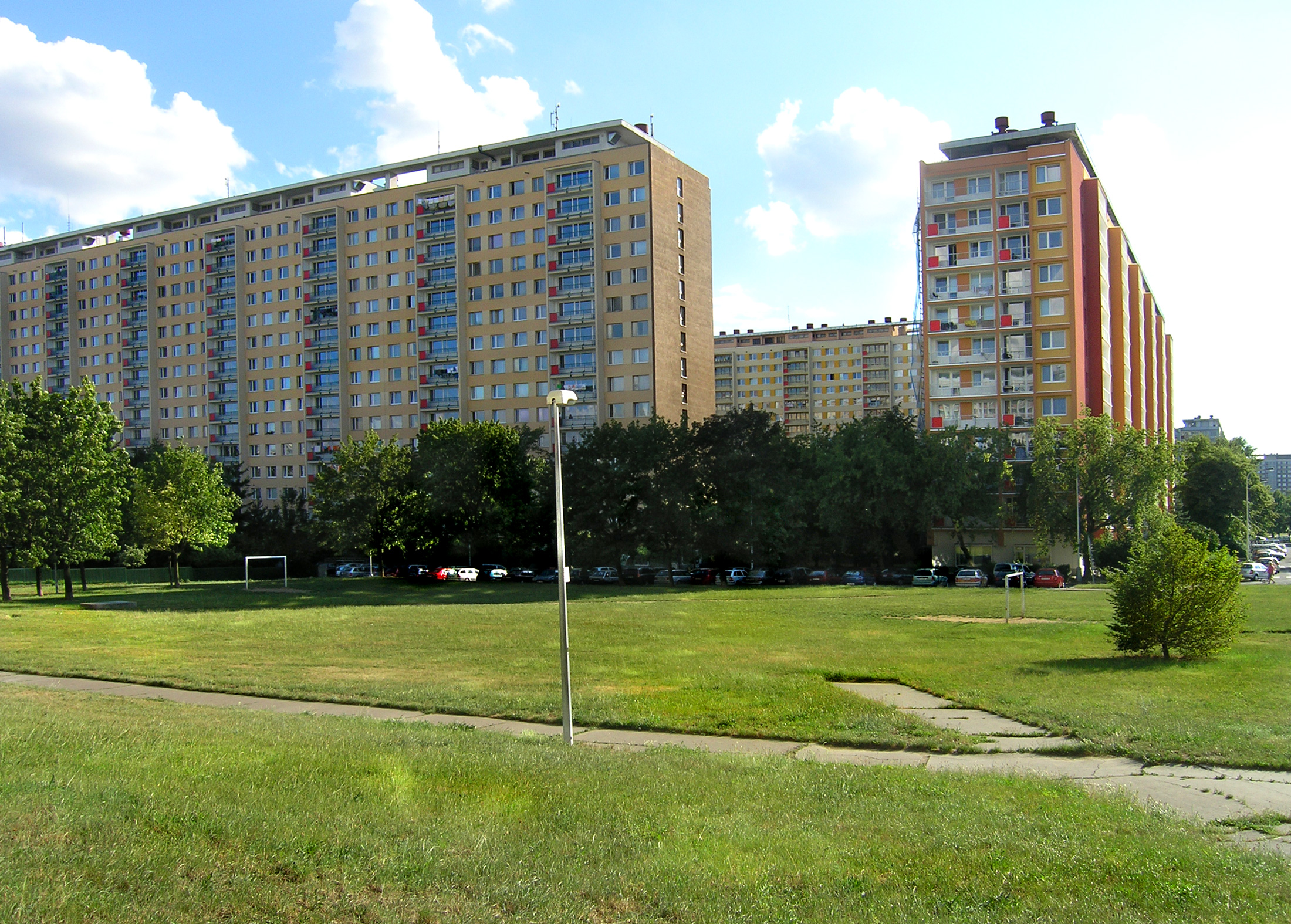 Ďáblice housing estate near Chabařovická street at Kobylisy, Prague